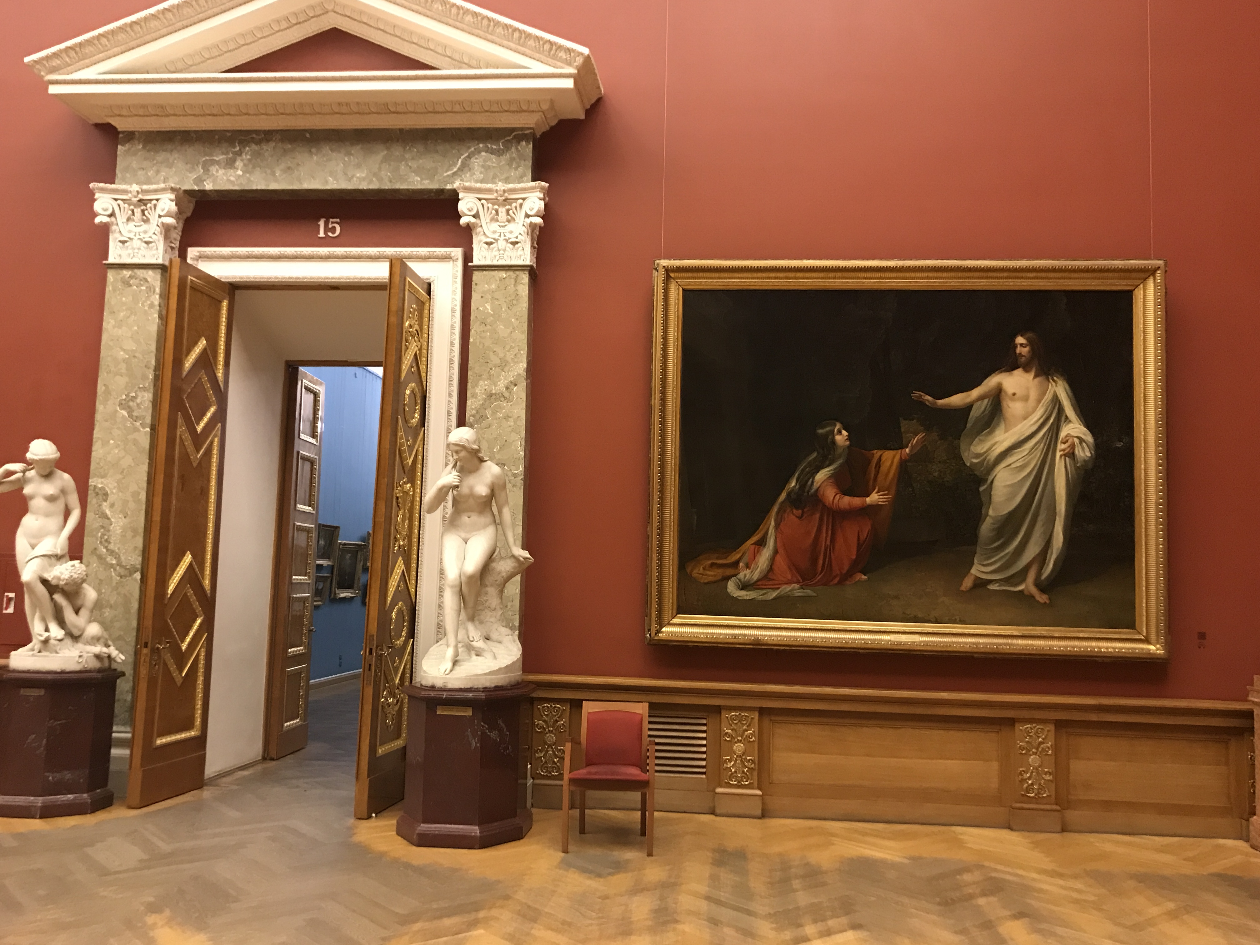 "Christ appearance to St Mary Magdalene after the Resurrection" (painting by Alexander Ivanov, 1835) in the State Russian Museum